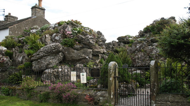 Aysgarth's fantastic rock garden. This unique rock garden was created circa 1906 by a local resident. It gradually became overgrown and neglected, but has recently been restored to its former glory.